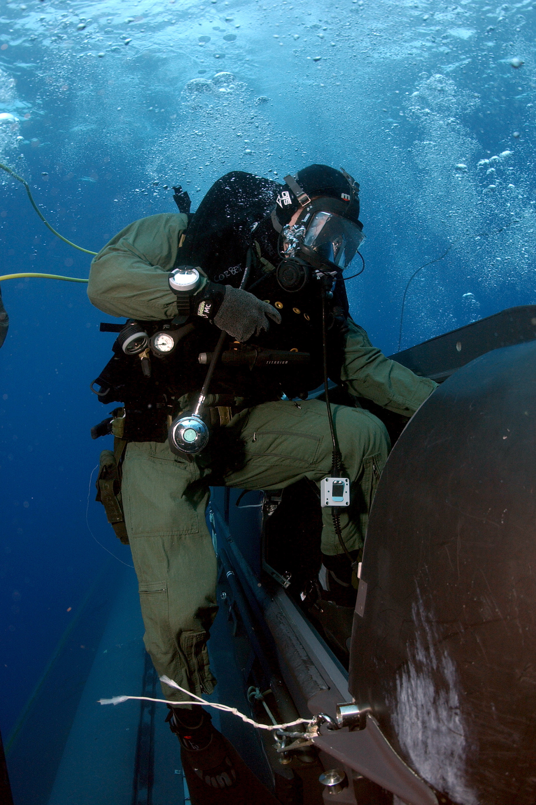 Atlantic Ocean (May 5, 2005) - A member of SEAL Delivery Vehicle Team Two (SDVT-2) climbs aboard one of the team's SEAL Delivery Vehicles (SDV) before launching from the back of the Los Angeles-class attack submarine USS Philadelphia (SSN 690) on a training exercise. The SDVs are used to carry Navy SEALs from a submerged submarine to enemy targets while staying underwater and undetected. SDVT-2 is stationed at Naval Amphibious Base Little Creek, Va., and conducts operations throughout the Atlantic, Southern, and European command areas of responsibility. U.S. Navy photo by Chief Photographer's Mate Andrew McKaskle (RELEASED)